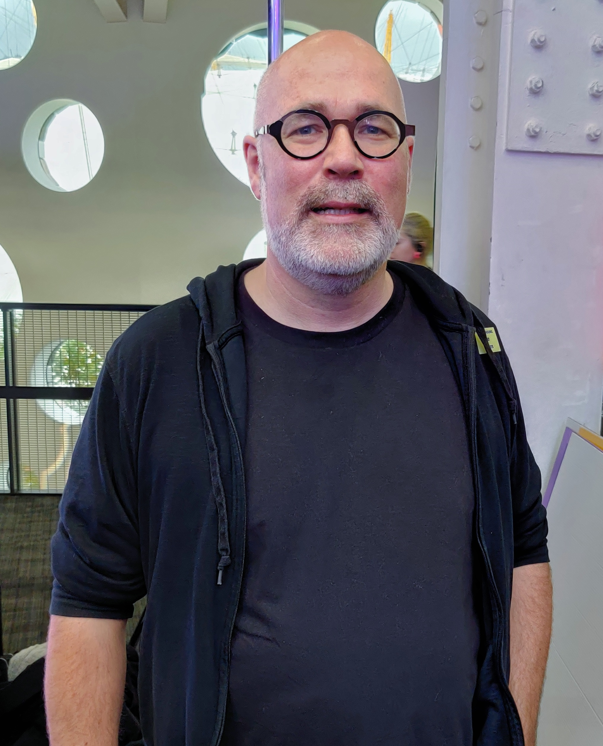 This picture was taken at Mozfest 2019